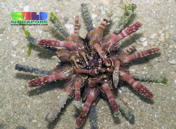 Thorny sea urchin (maybe Prionocidaris bispinosa). More about this sea urchin on the wildfacts sheets on wildsingapore. For a high res version of this photo, please review the details on about using my photos. When making the request, please include this reference: 040509skdbd0148